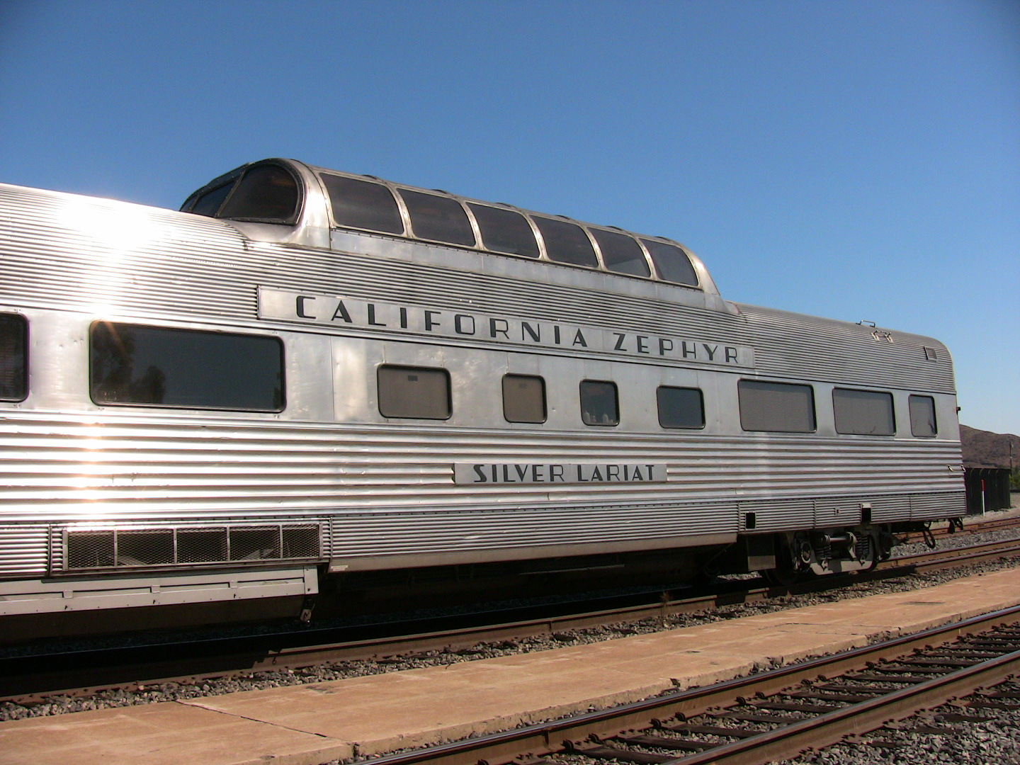 Historic California Zephyr dome coach car "Silver Lariat" en route to Oakland, being pulled by the Coast Starlight. The Budd Company built #4718 "Silver Lariat" in 1948-1949 for the CB&Q as part of the original California Zephyr. The Vista-Dome coach sat 46 in the lower level and accommodated 24 in non-revenue seating in the dome.